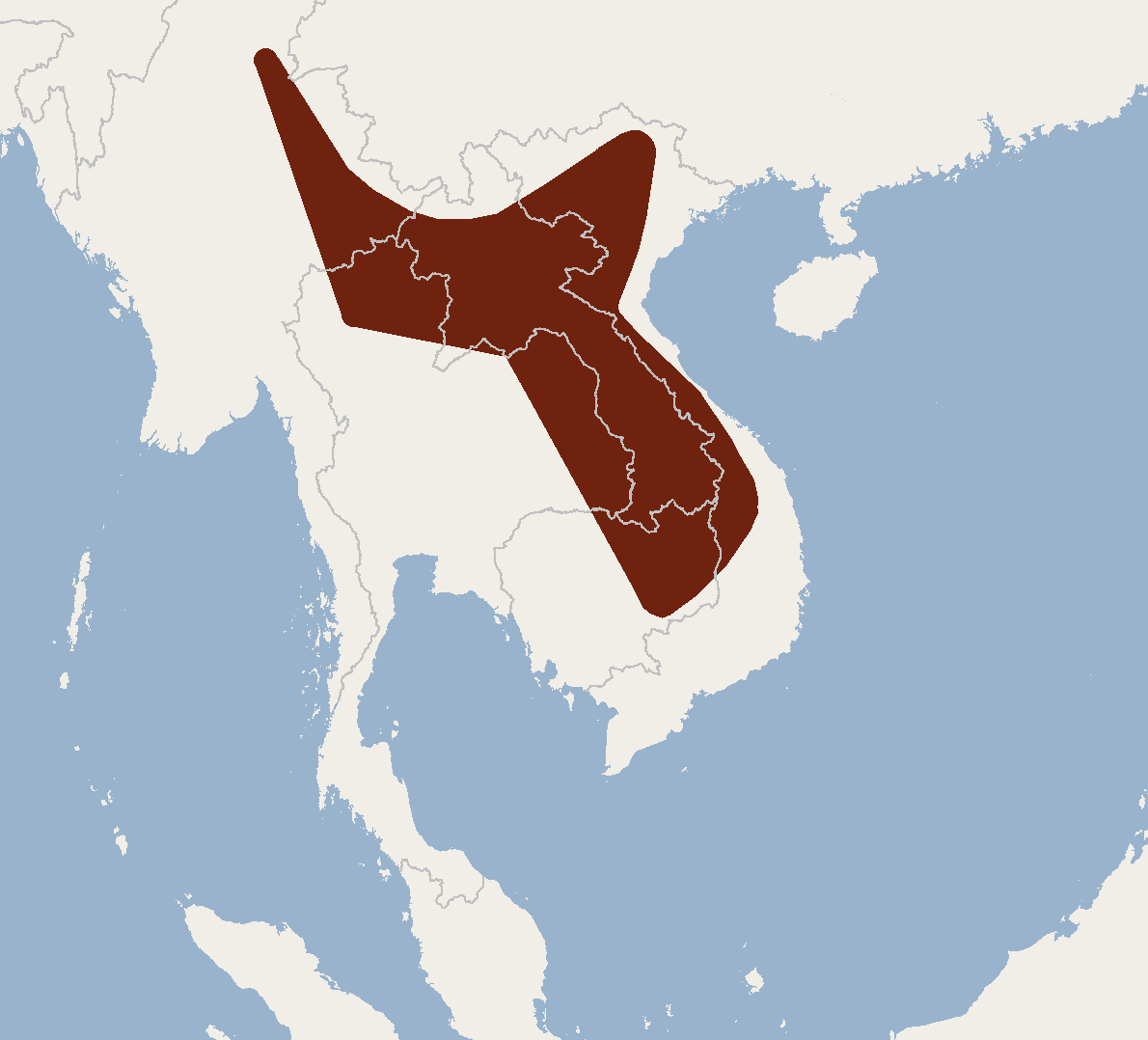 Geographical distribution of KErivoula titania according to IUCNRedlist